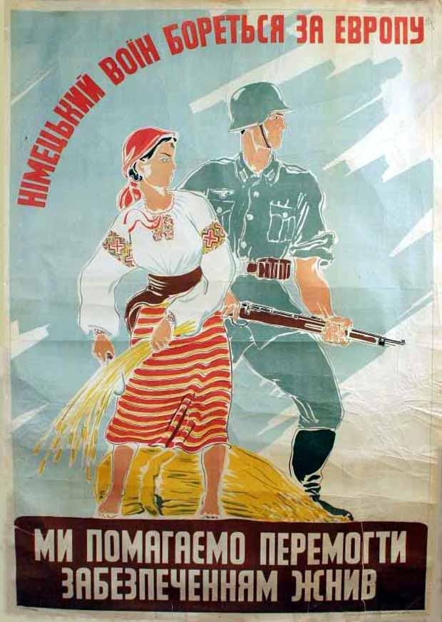 Ukrainian poster depicting a German soldier protecting a Ukrainian woman; targeted at colonists of the Reichsgau Wartheland